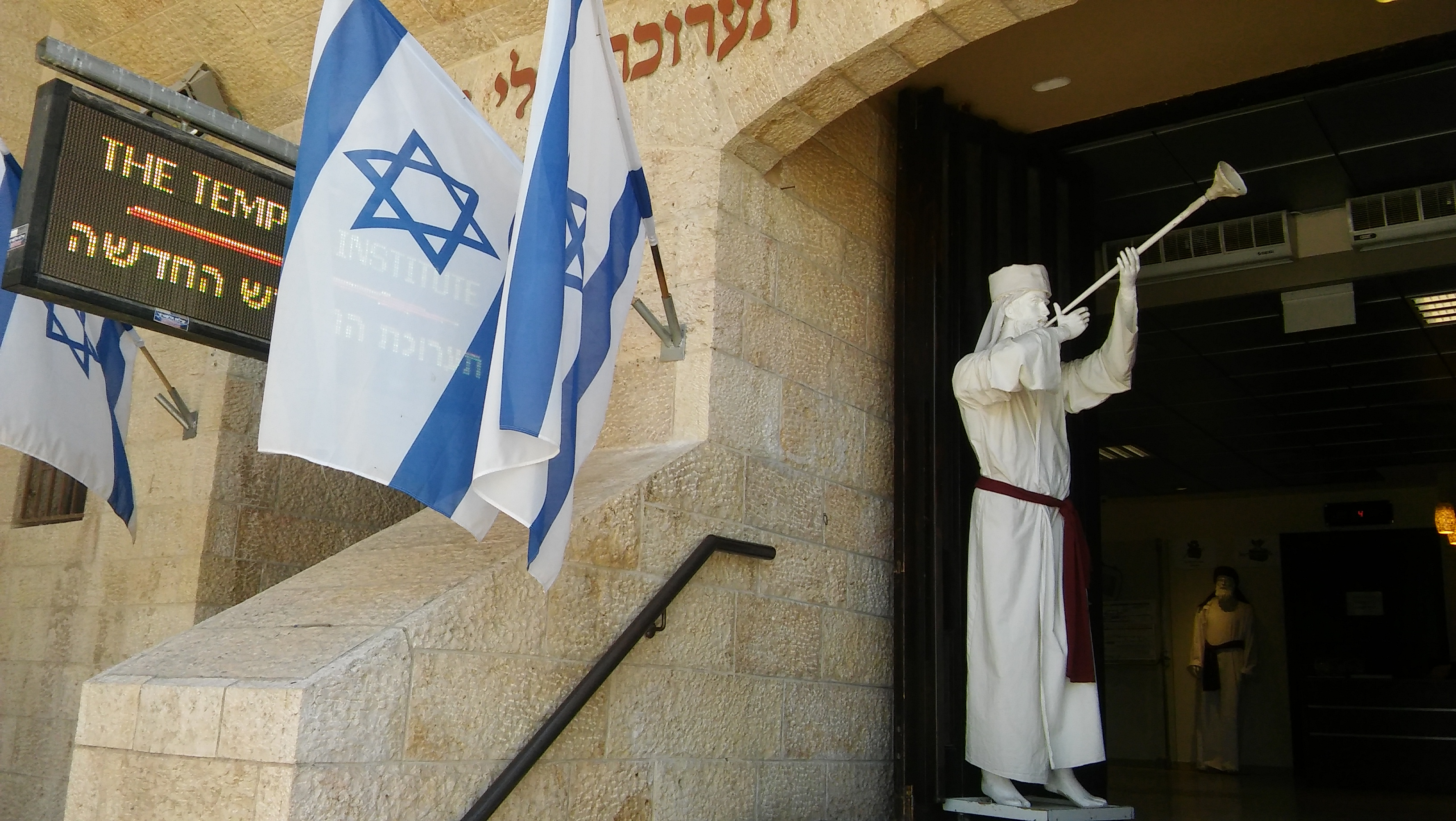 The Temple Institute